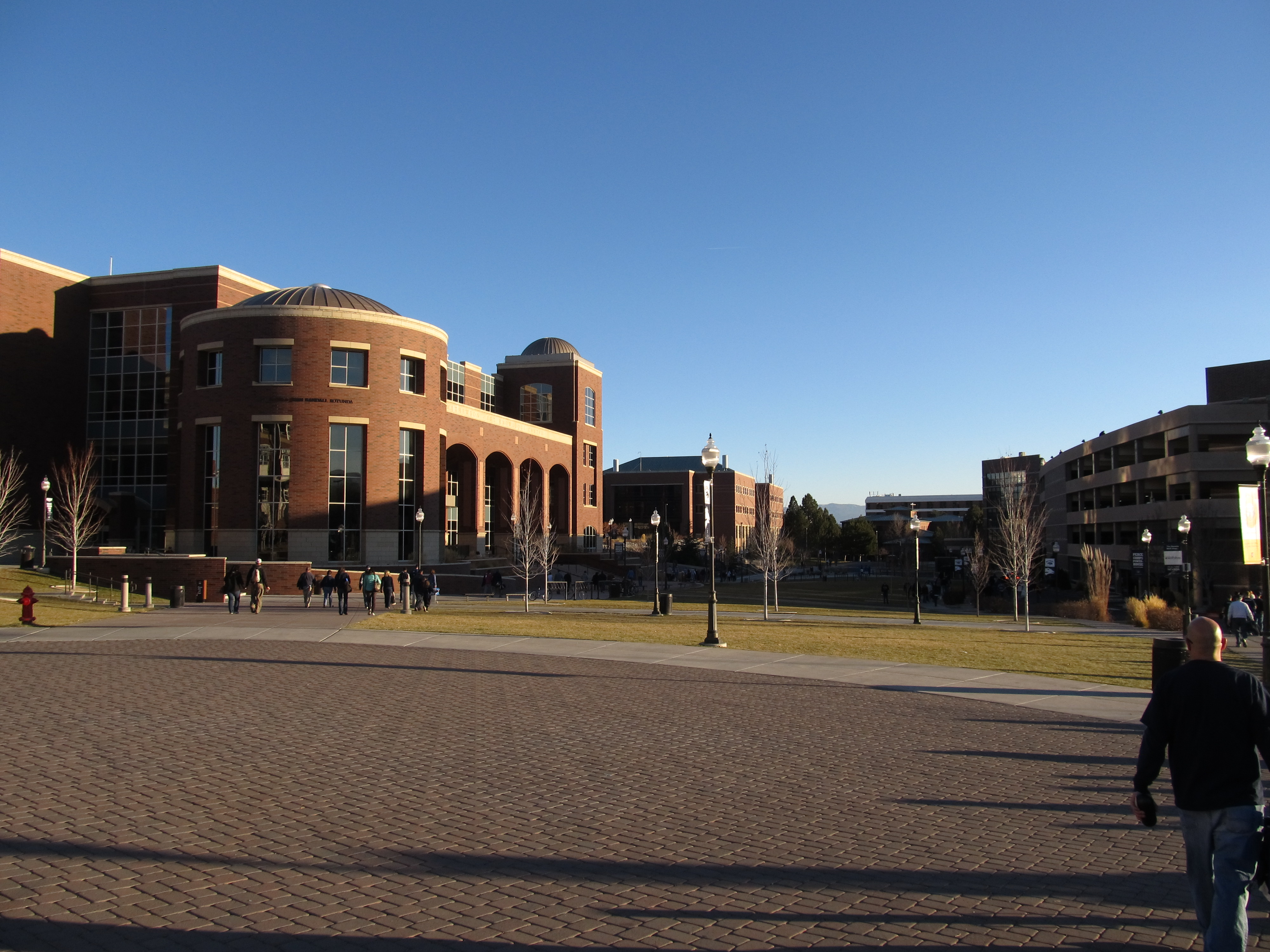 The University of Nevada, Reno (usually referred to as the University of Nevada or Nevada) is a teaching and research university established in 1874 and located in Reno, Nevada, USA. It is the sole land grant institution for the state of Nevada. The campus is home to the large-scale structures laboratory in the College of Engineering, which has put Nevada researchers at the forefront nationally in a wide range of civil engineering, earthquake and large-scale structures testing and modeling. The Nevada Terawatt Facility, located on a satellite campus of the university, includes a terawatt-level Z-pinch machine and terawatt-class high-intensity laser system – one of the most powerful such lasers on any college campus in the country. It is home to the University of Nevada School of Medicine, with campuses in both of Nevada's major urban centers, Las Vegas and Reno, and a health network that extends to much of rural Nevada. The faculty are considered worldwide and national leaders in diverse areas such as environmental literature, journalism, Basque studies, and social sciences such as psychology. It is also home to the Donald W. Reynolds School of Journalism, which has produced six Pulitzer Prize winners. The school includes 16 clinical departments and five nationally recognized basic science departments. University of Nevada, Reno is ranked 181st amongst national universities nationwide as a Tier 1 University by U.S. News & World Report.